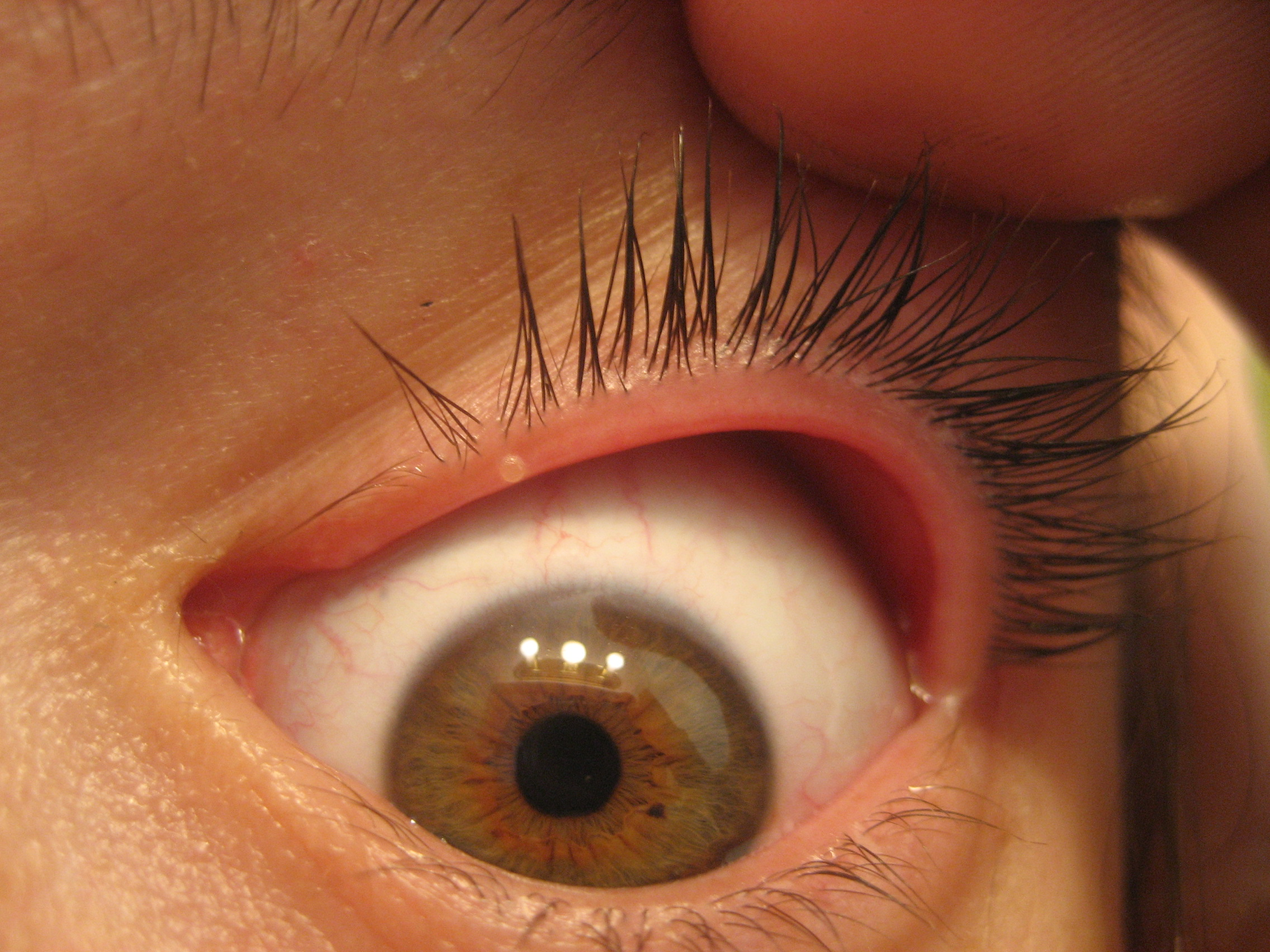 An internal hordeolum on my eyelid.